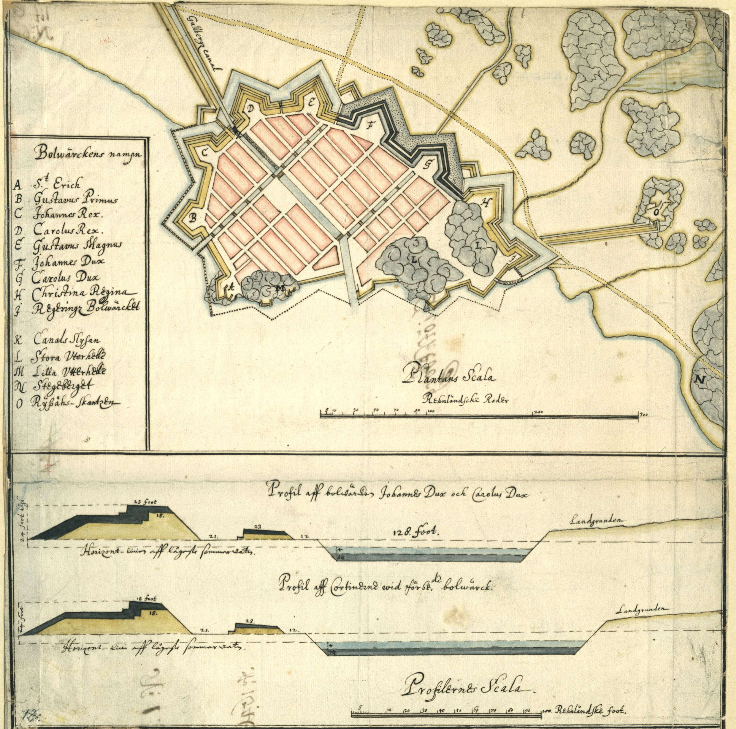 Map showing the fortifications at Gothenburg, Sweden, in 1646.